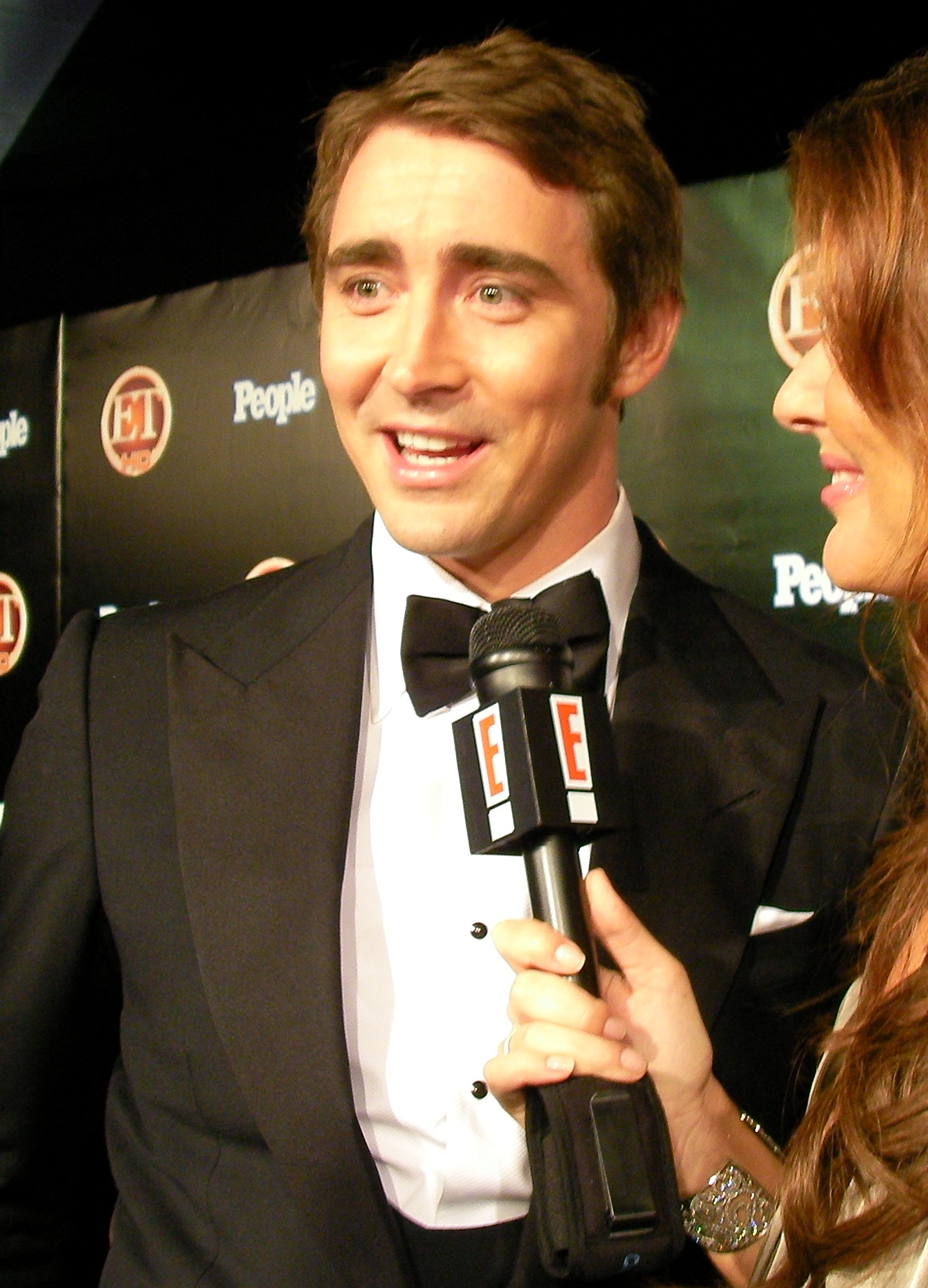 American actor Lee Pace at the ET Post-Emmys Party, Walt Disney Concert Hall, Sept. 21, 2008